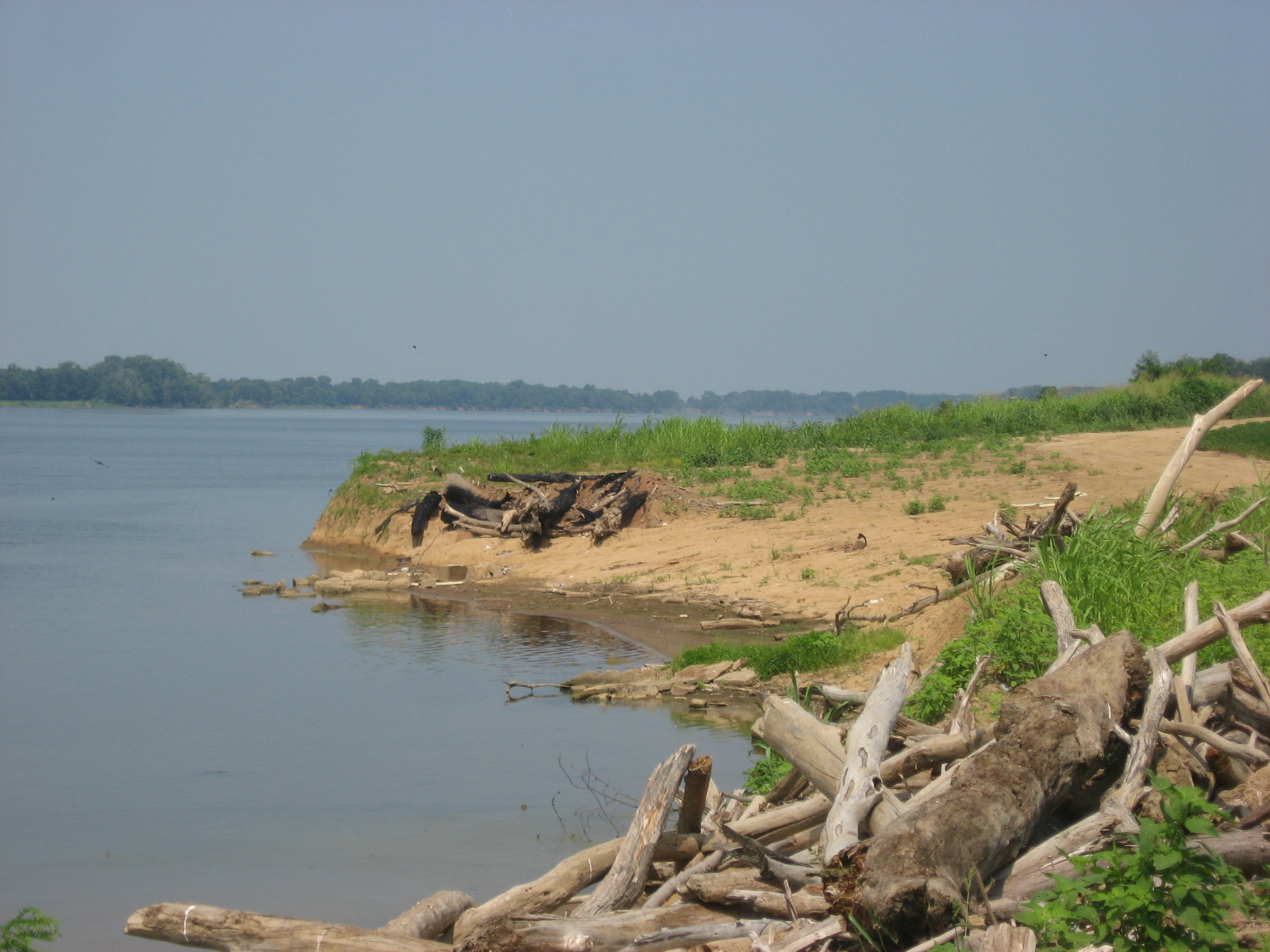 Overview of the Yankeetown Site, located between French Island Trail (the dirt road on the right edge of the photograph) and the Ohio River south of Yankeetown in Anderson Township, Warrick County, Indiana, United States. Once a village of the Mississippian culture and somewhat similar to the people of the nearby Angel Site, Yankeetown is an archaeological site and listed on the National Register of Historic Places.